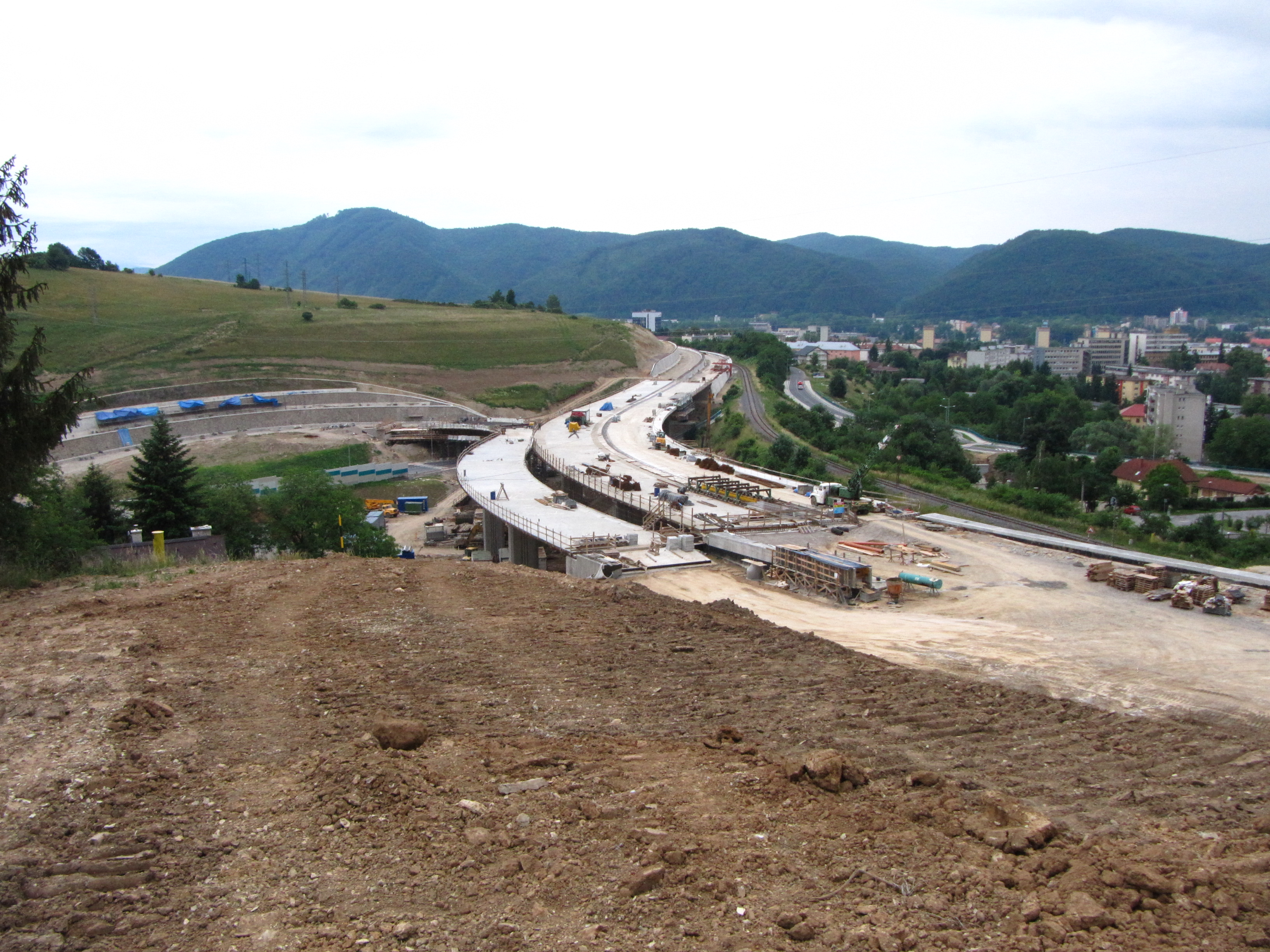 Northern by-pass of Banska Bystrica, Slovakia in June 2011.